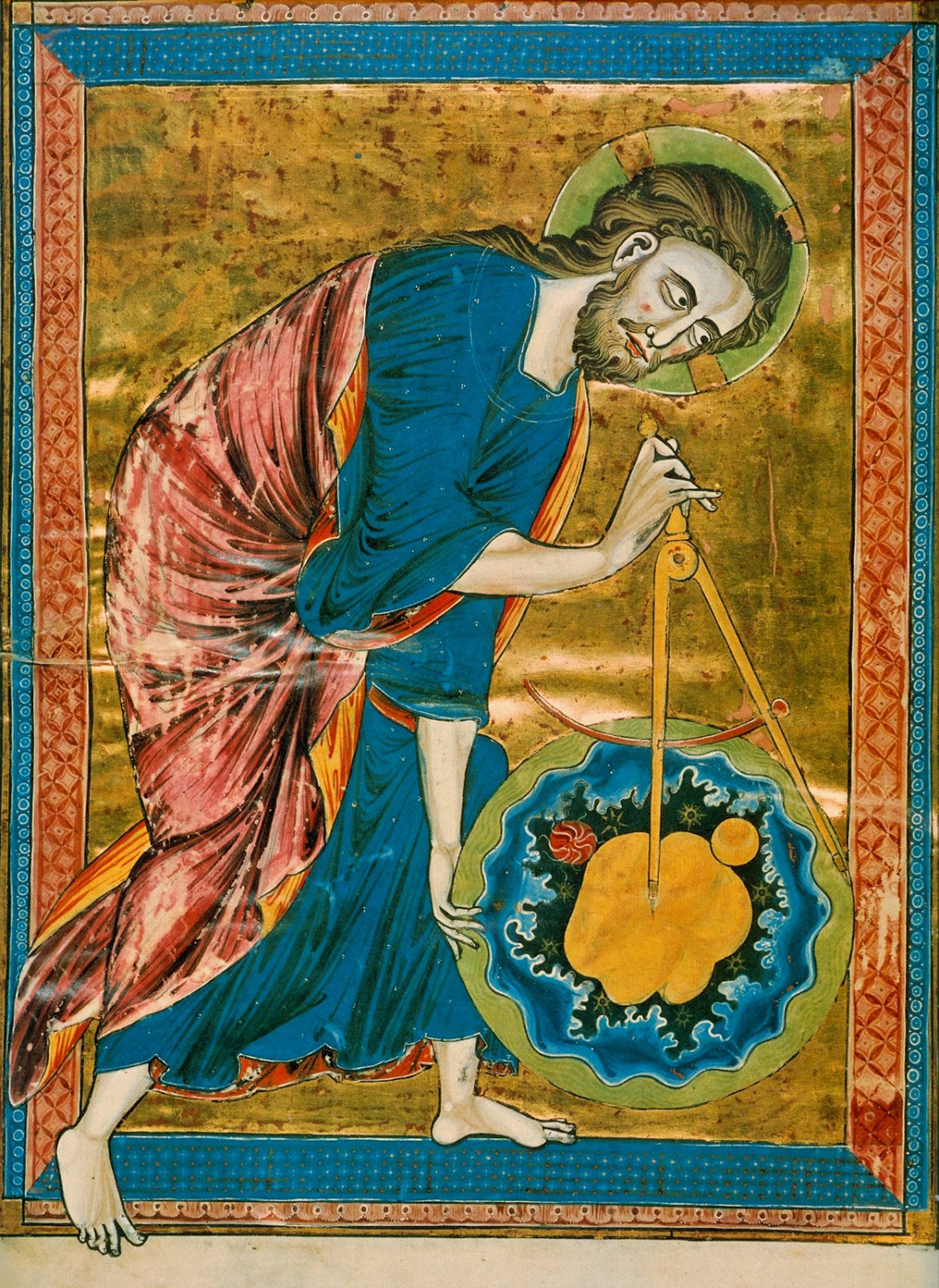 God the Geometer, Codex Vindobonensis 2554, circa 1220-1230